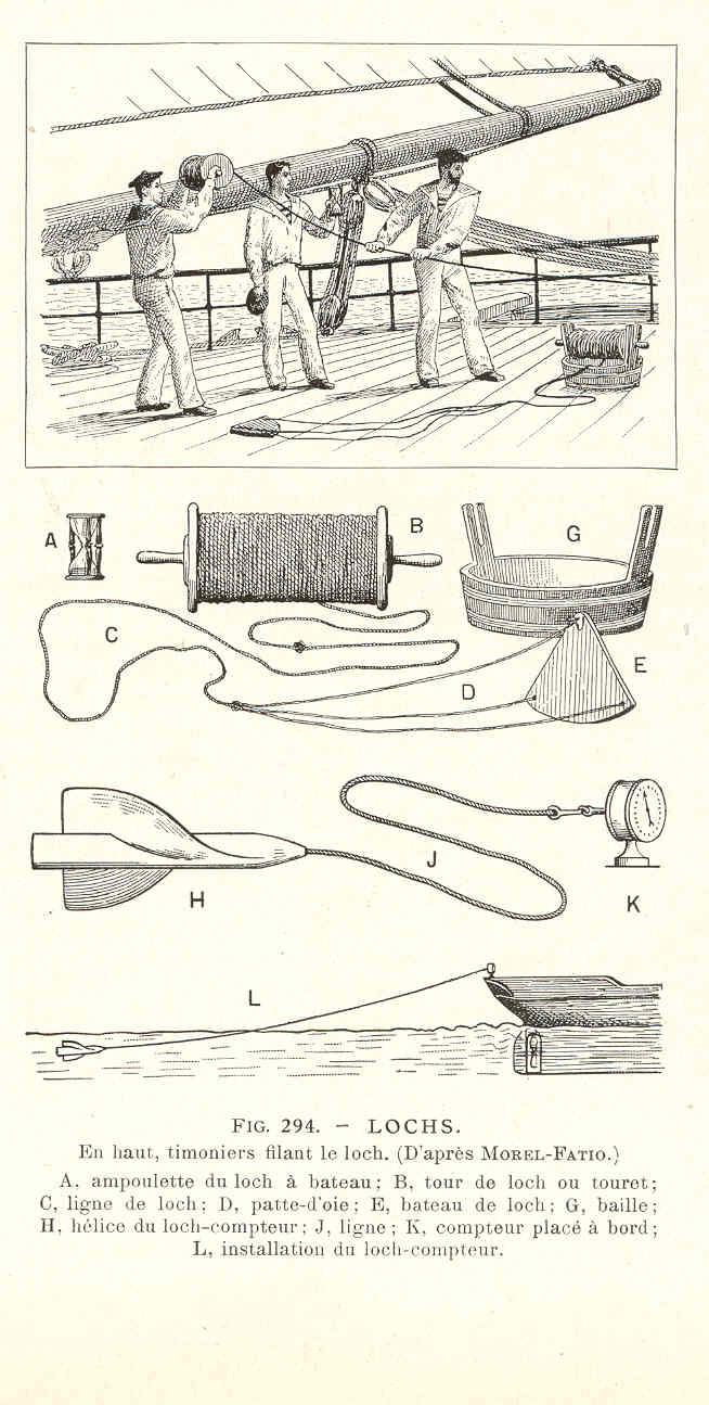 Drawings of old ship logs. Subject: Logs (Nautical instruments), Navigation Tag: Vessels